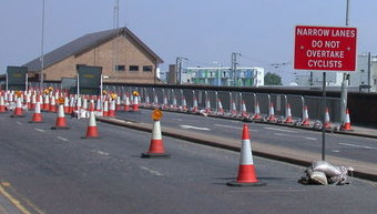 Narrow Lanes Do Not Overtake Cyclists I don't suppose they do, given the speed of a typical Cambridge cyclist. The narrow lanes are a contraflow system on Hills Road bridge while a new underpass is cut below it. This will provide an alternative route for guided buses, cyclists and pedestrians from the station to Addenbrookes and Trumpington.